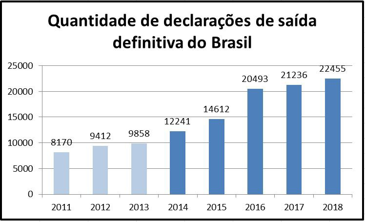 Quantidade de declarações de saída definitiva do Brasil